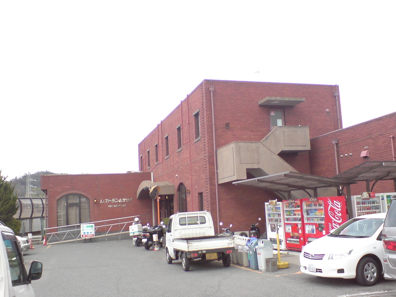 "Onomichi-truck-station" in Onomichi-city,Japan. Parking & Restaurant & spa etc.. take a picture for myself.